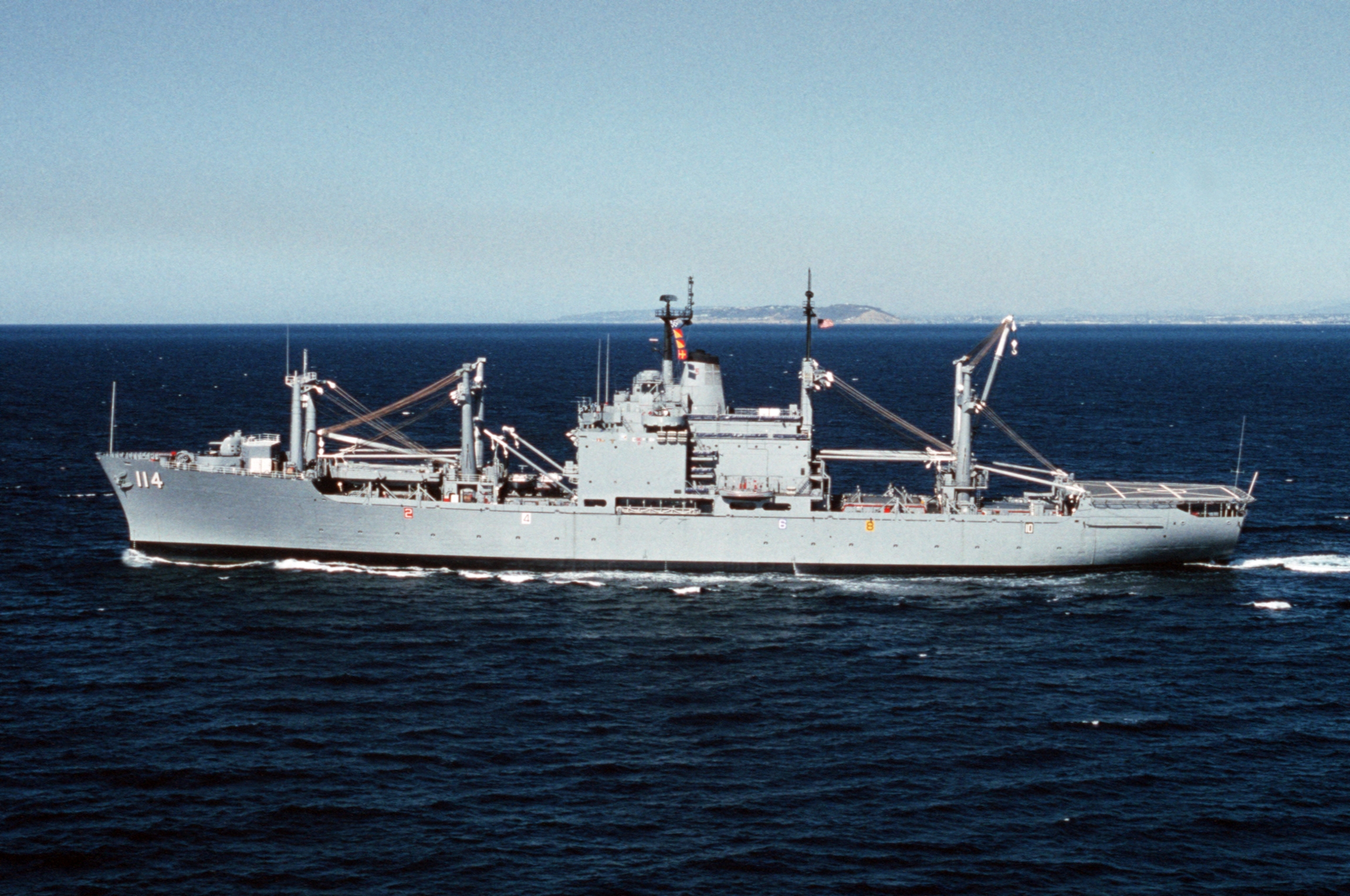 The U.S. Navy amphibious cargo ship USS Durham (LKA-114) underway off the coast of San Diego, California (USA).